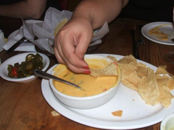 Chili con queso. This picture was taken at Ninfa's Tex-Mex restaurant on Navigation street in Houston, Texas on November 19, 2007. Photo taken by Robb Zipp at Russell Solomon's 30th birthday party. The hand model is Michelle Lafuente.